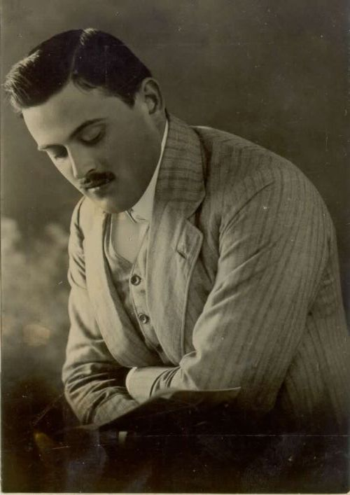 Anton Sovre (1885-1963), Slovenian translator of classical languages